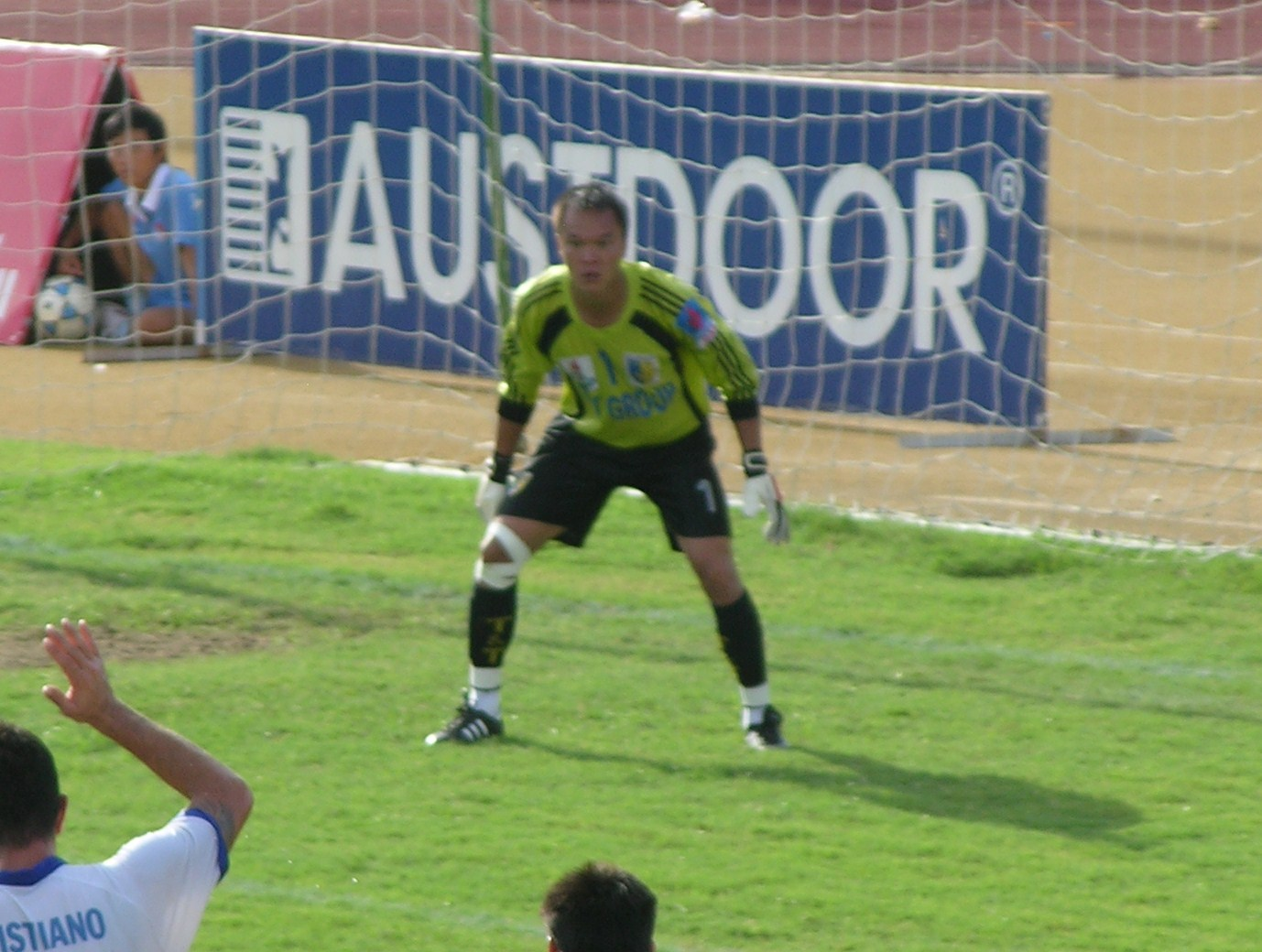 Duong Hong Son in T&T Hà Nội in V-League 2009.